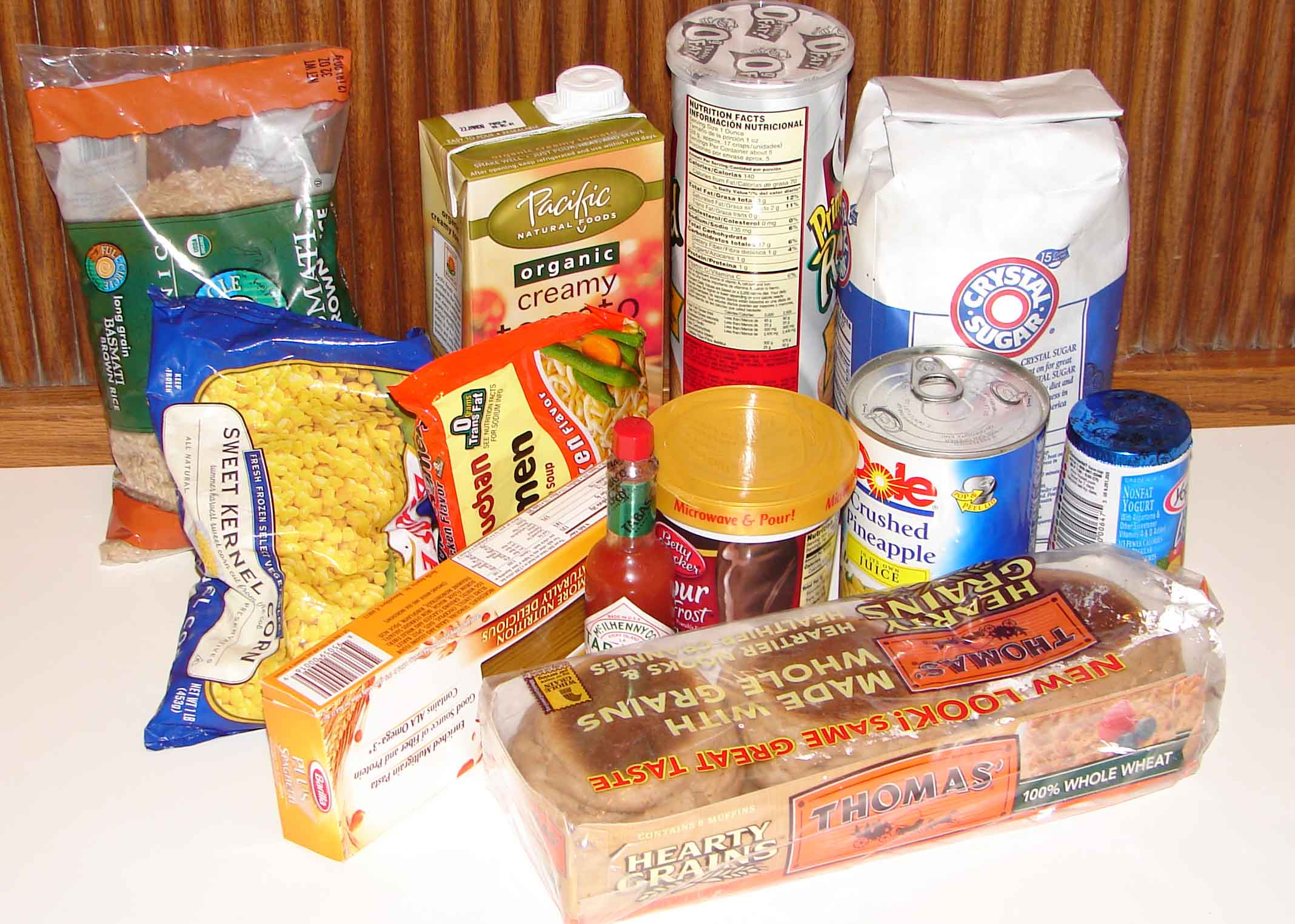 Photo by R L Sheehan of commercially available packages. For Wikipedia.